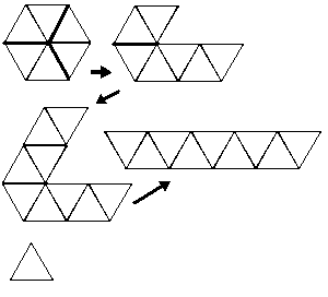 created using MS Paint by G J Vigurs 08/12/06